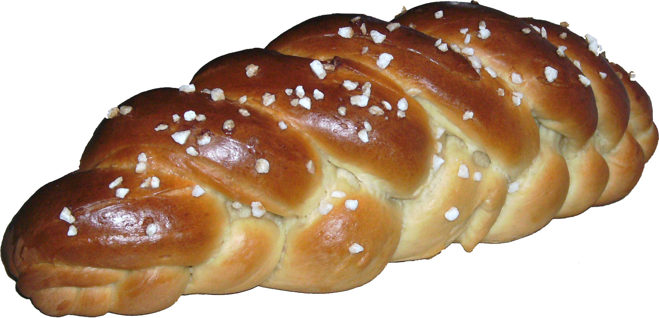 Bavarian Yeast Bread, braided with five strands